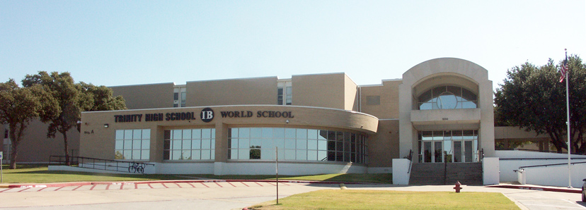 The front entrance of Trinity High School in Euless, facing Industrial Boulevard